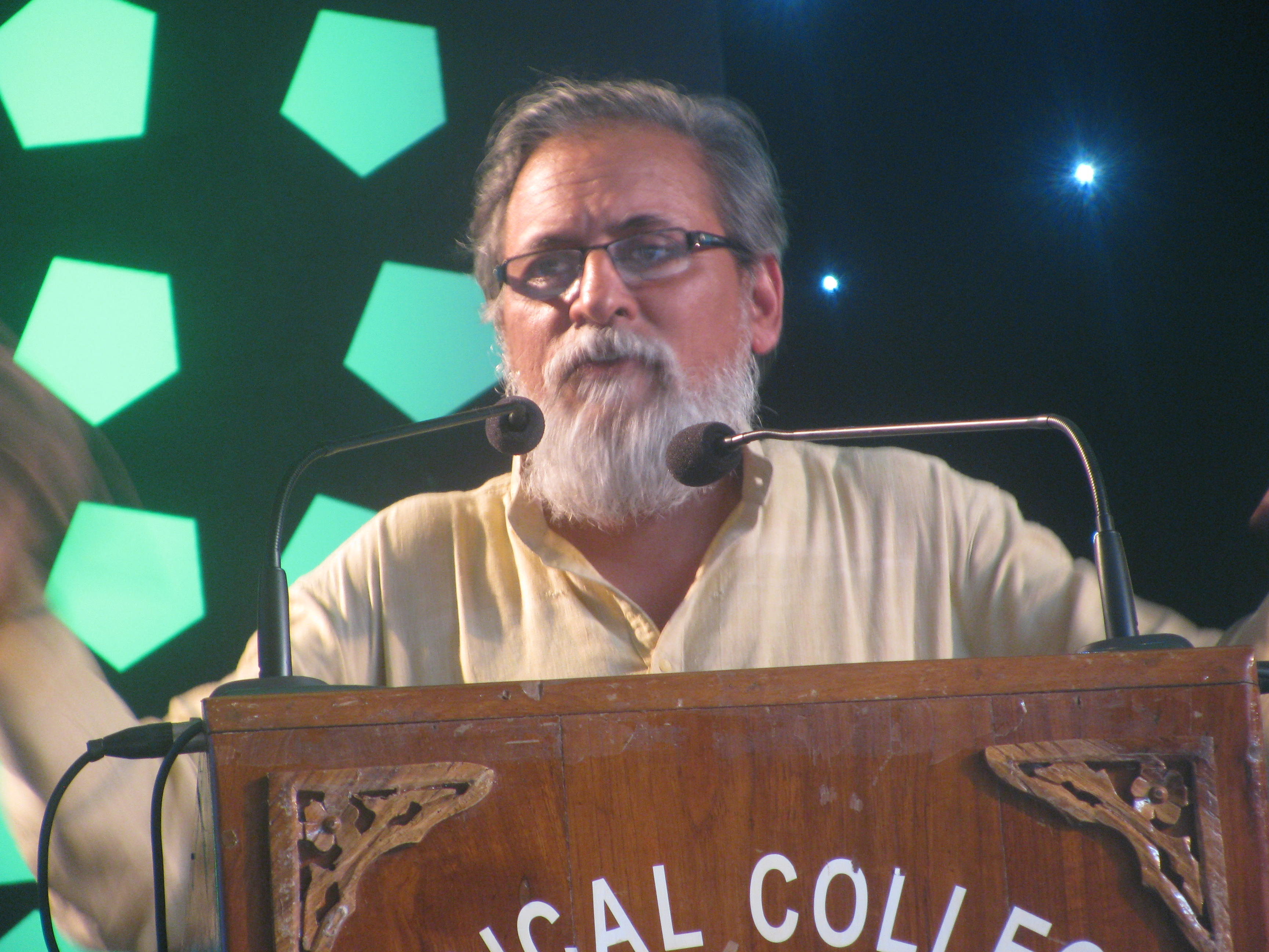 Prof. Anil K Gupta speaking at Erudite Conclave 2011 organised by Class of 2005, Medical College, Thiruvananthapuram